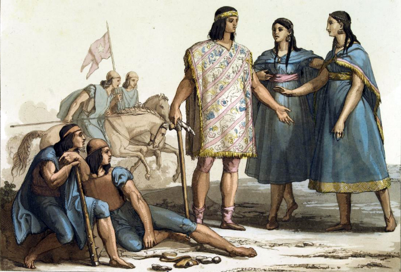 Aquatint depicting an Araucani chief and his entourage. They were known as the toughest indigenous people of South America. The Araucans are Amerindian tribes habiting the Arauco area in the center of Chile which now-a-days make the most of the Indigenous population in Chile. From Giulio Ferrario's work Le Costume Ancien et Moderne ou Histoire du gouvernement, de la milice, de la religion, des arts, sciences et usages de tous les peuples anciens et modernes d'après les monuments de l'antiquité et accompagné de dessins analogues au sujet par le Docteur Jules Ferrario. ". Published in Milan by the author between 1816 and 1827.